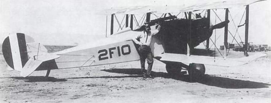 A U.S. Navy Vought VE-7SF of Fighting Squadron 2, in 1922.